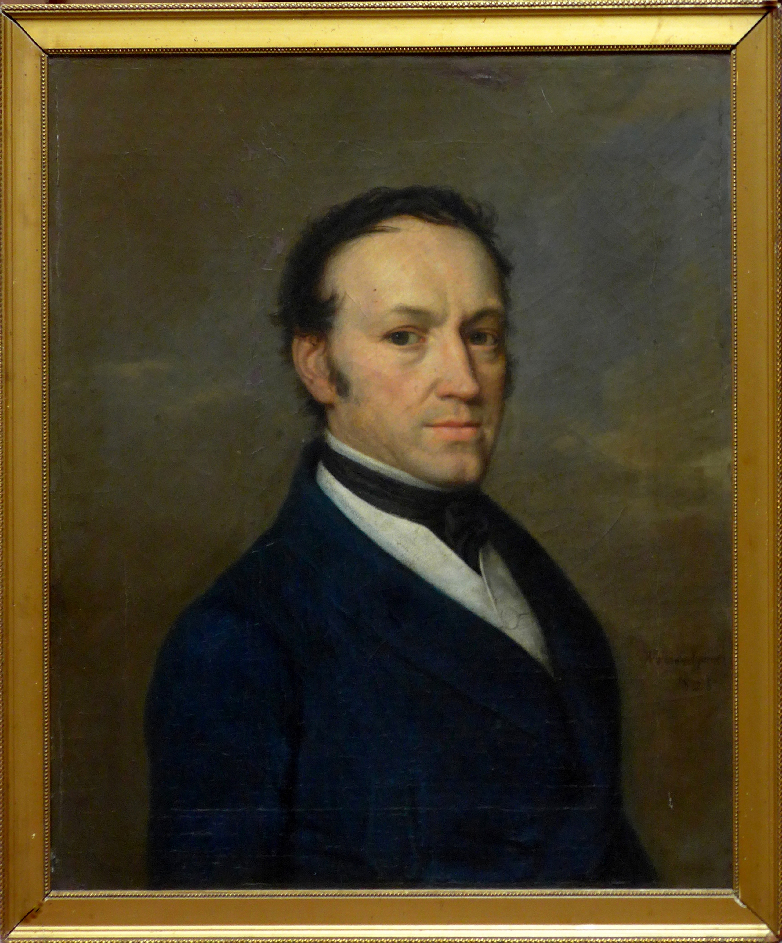 Portrait of the Grand-Ducal-Saxon-Weimar-Eisenach Building Council, architects and brick maker Johann Wilhelm Sältzer, 48 years old. The painter's signature is illegible. Oil on canvas, 64.5 x 52.5 cm